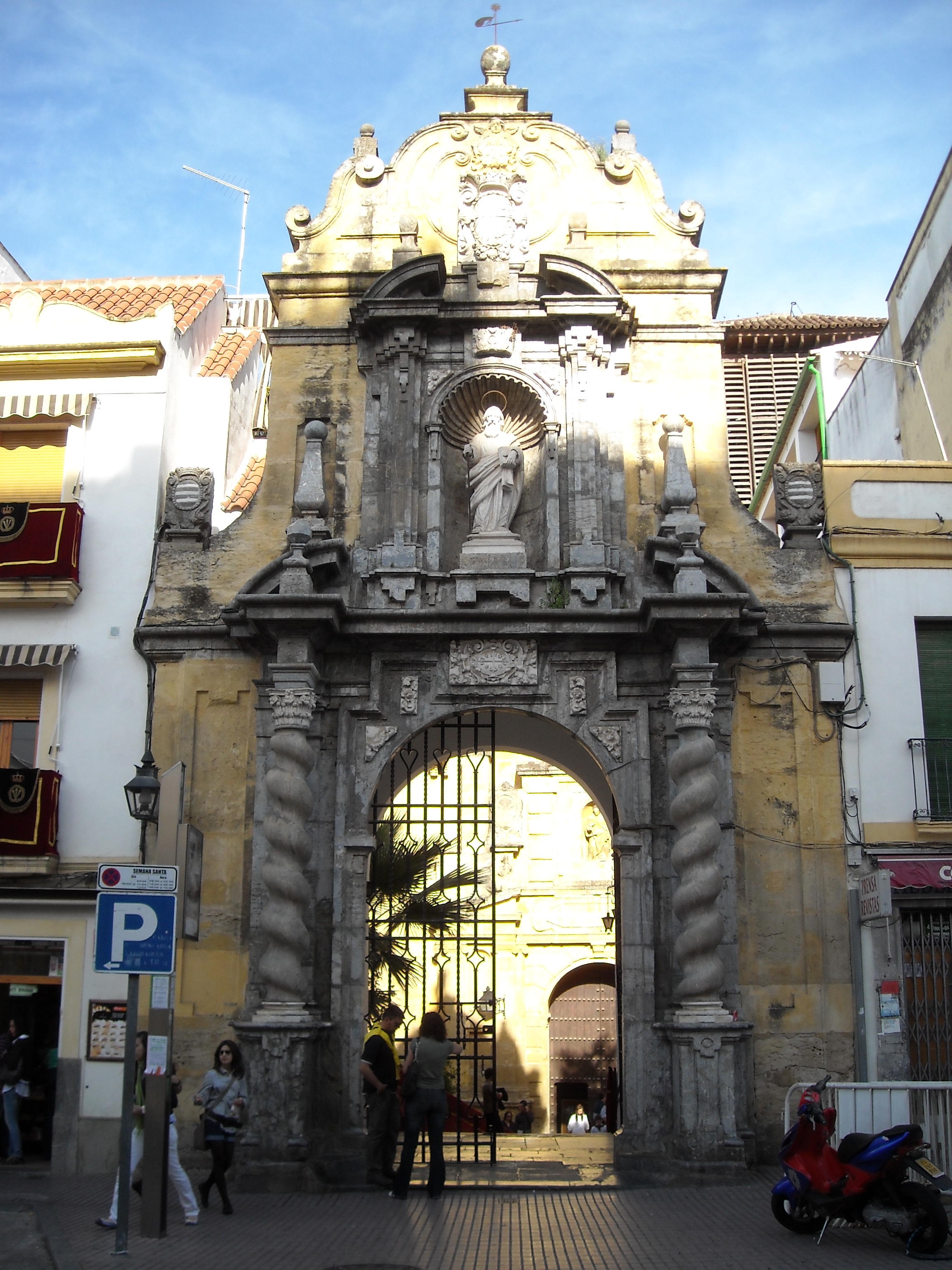 Church of St. Paul, Córdoba, Spain, entrance from Calle Capitulares